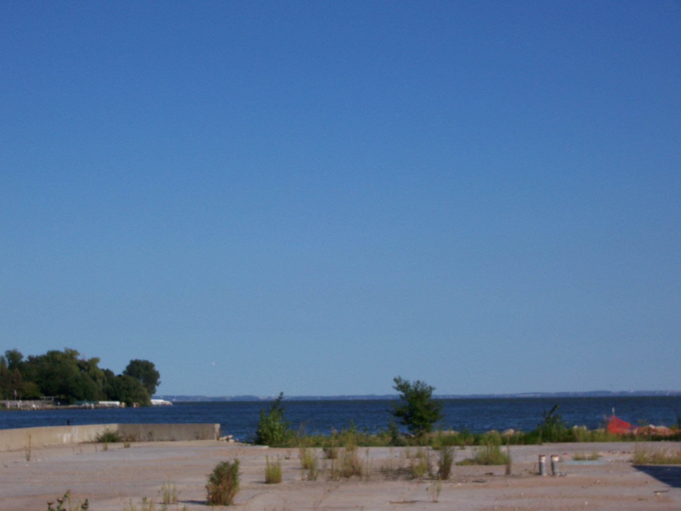 A picture of the mouth of the Fox River into Lake Winnebago in Oshkosh. This image was taken August 31, 2006 by User:Royalbroil